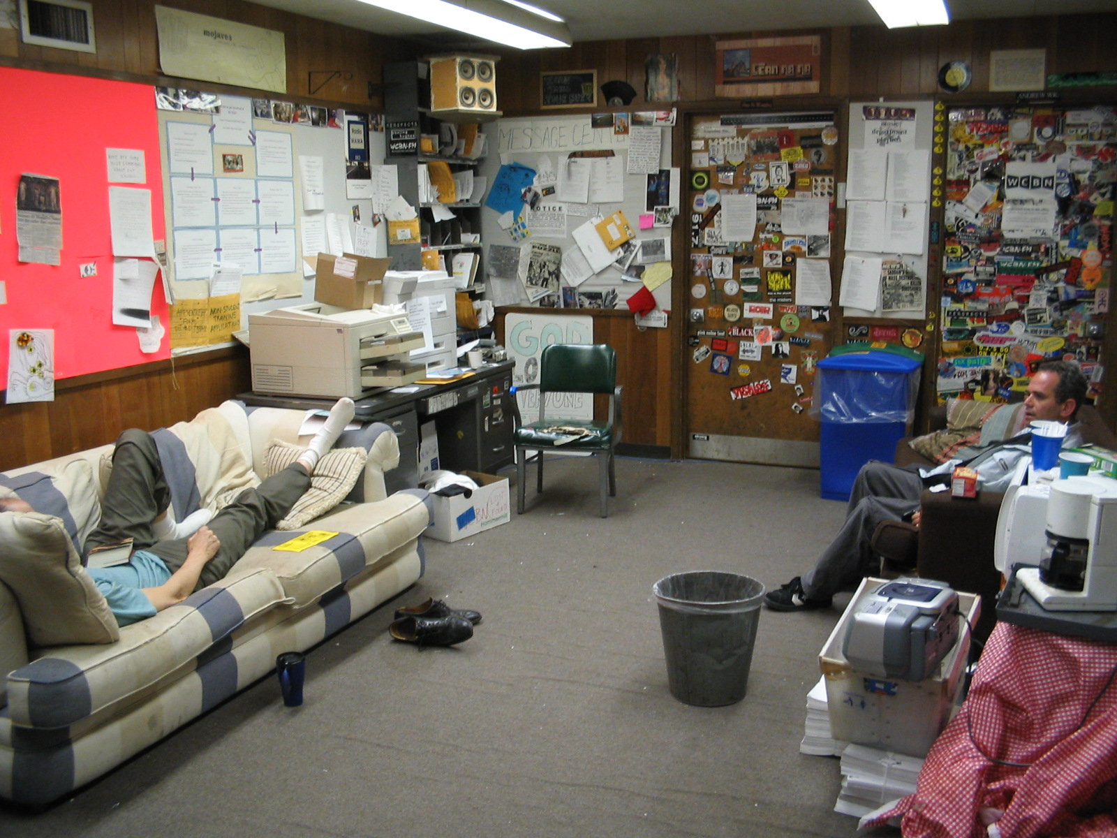 Photo of the lobby of Ann Arbor, Mich. radio station WCBN-FM.